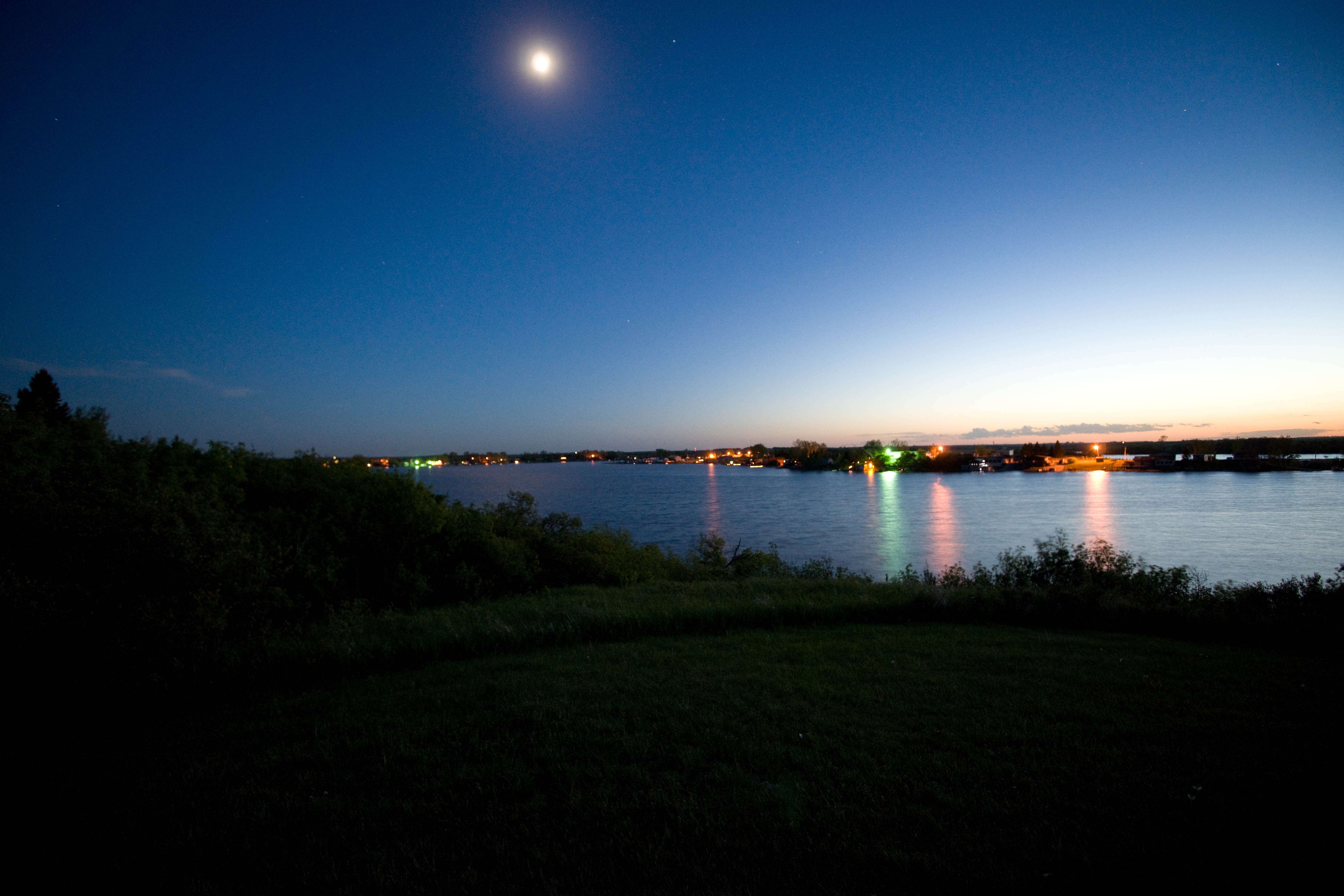 From